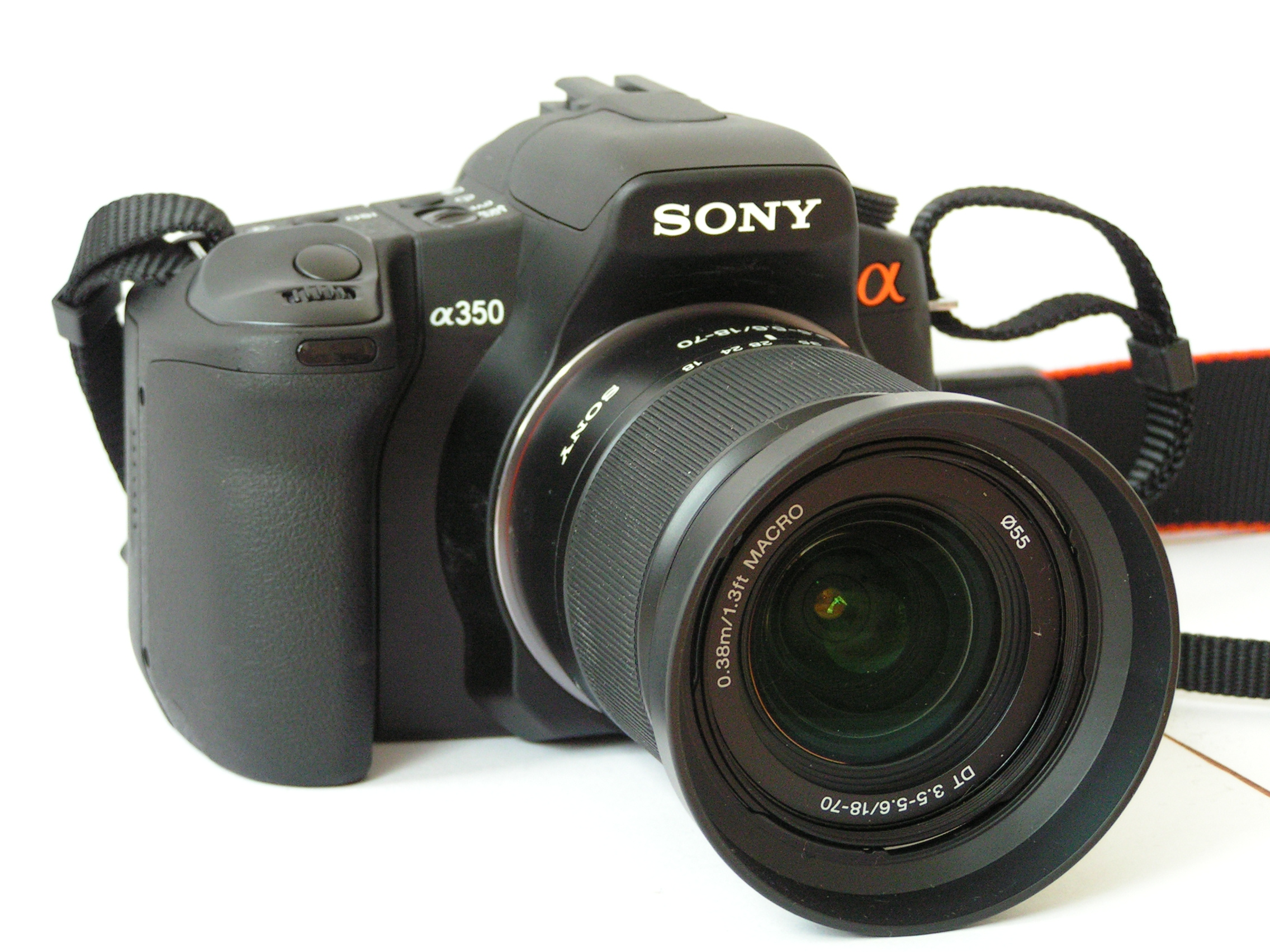 Sony D-SLR Alpha 350 with 18-70mm Kit lens